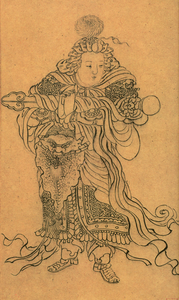 Yuan Dynasty depiction of Skanda Bodhisattva (Wei Tuo) by Zhao Mengfu, from his original Prajnaparamita Heart Sutra calligraphy.